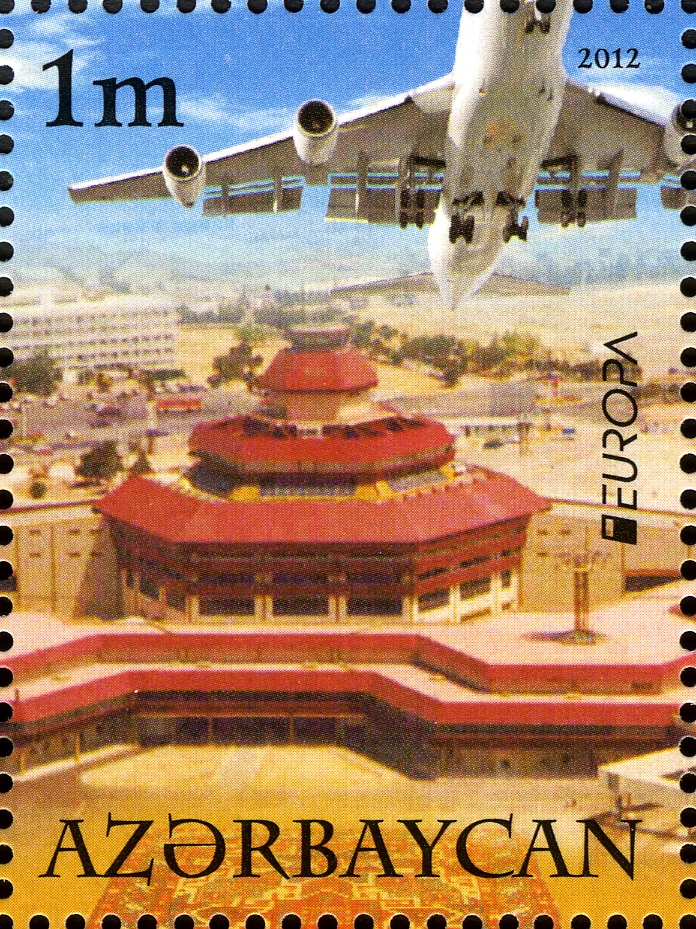 Europe 2012. Visit to Azerbaijan.